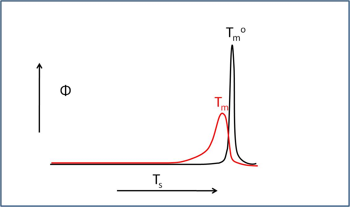 A schematic representation of the effect of impurities in a crystalline melting curve in a differential scanning calorimetry (DSC) experiment as used in the measurement of purity of samples